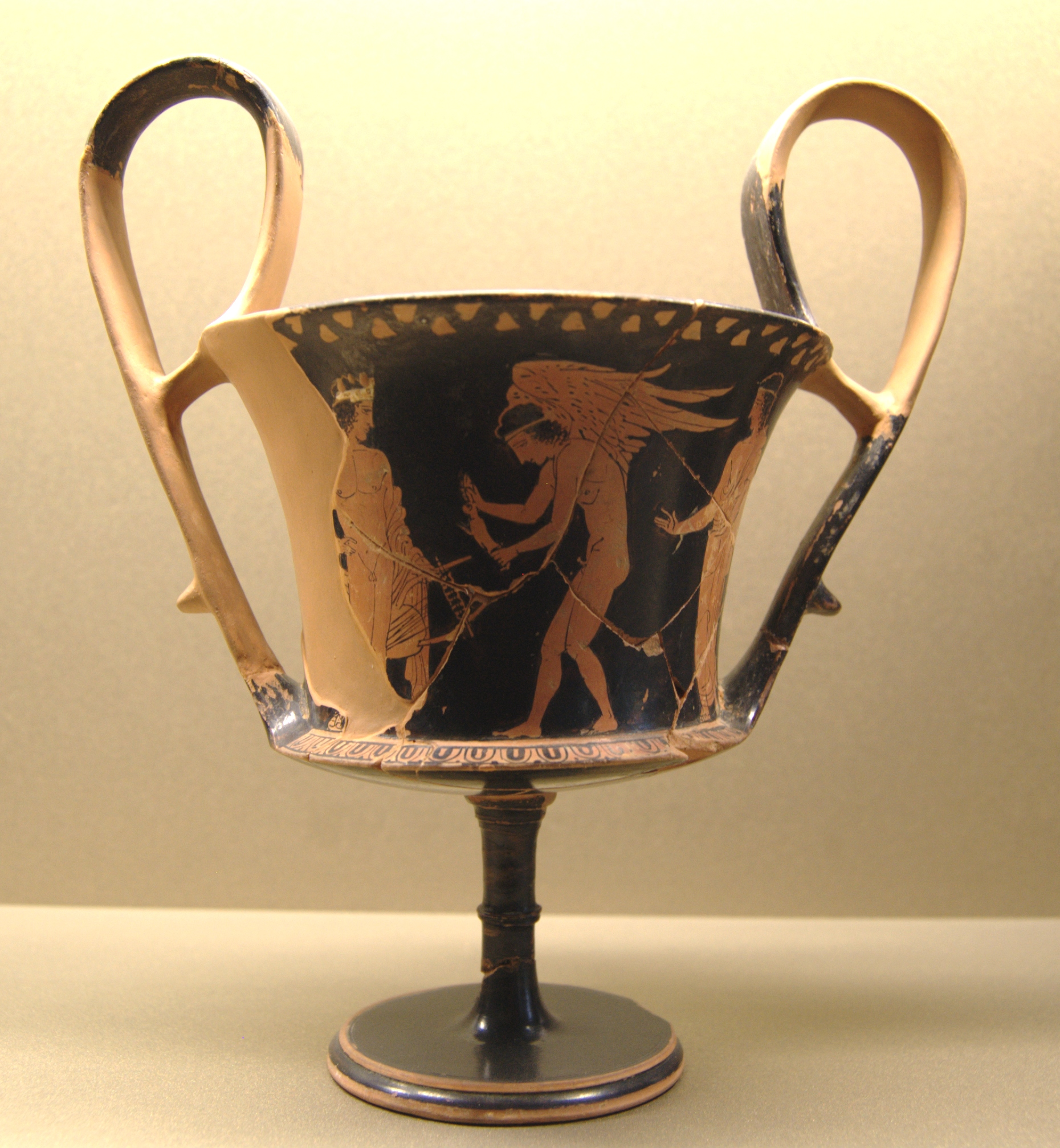 Eros and lyre player. Side B from an Attic red-figure kantharos, 420–410 BC. From Athens.